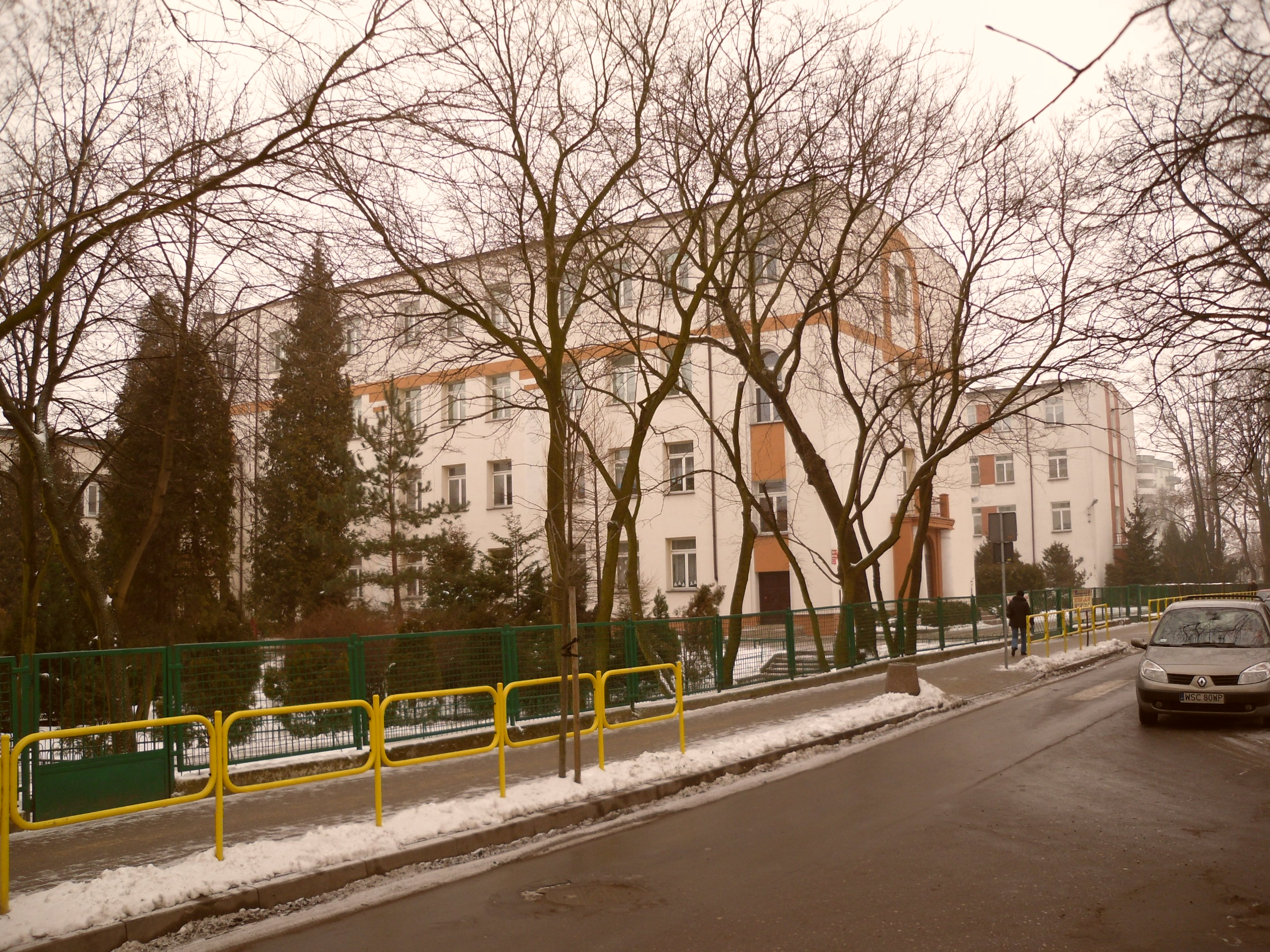 Sochaczew - primary schools